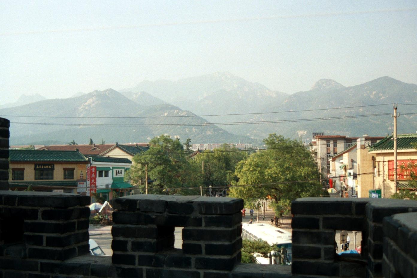 From Image:Taishan from Tai'an 01.jpg by David Woolley. "Photograph I took (my copyright) during a tour of China in September 2001. Shows the view from the ramparts of the Tai Miao temple, across Tai'an town towards Mount Tai."